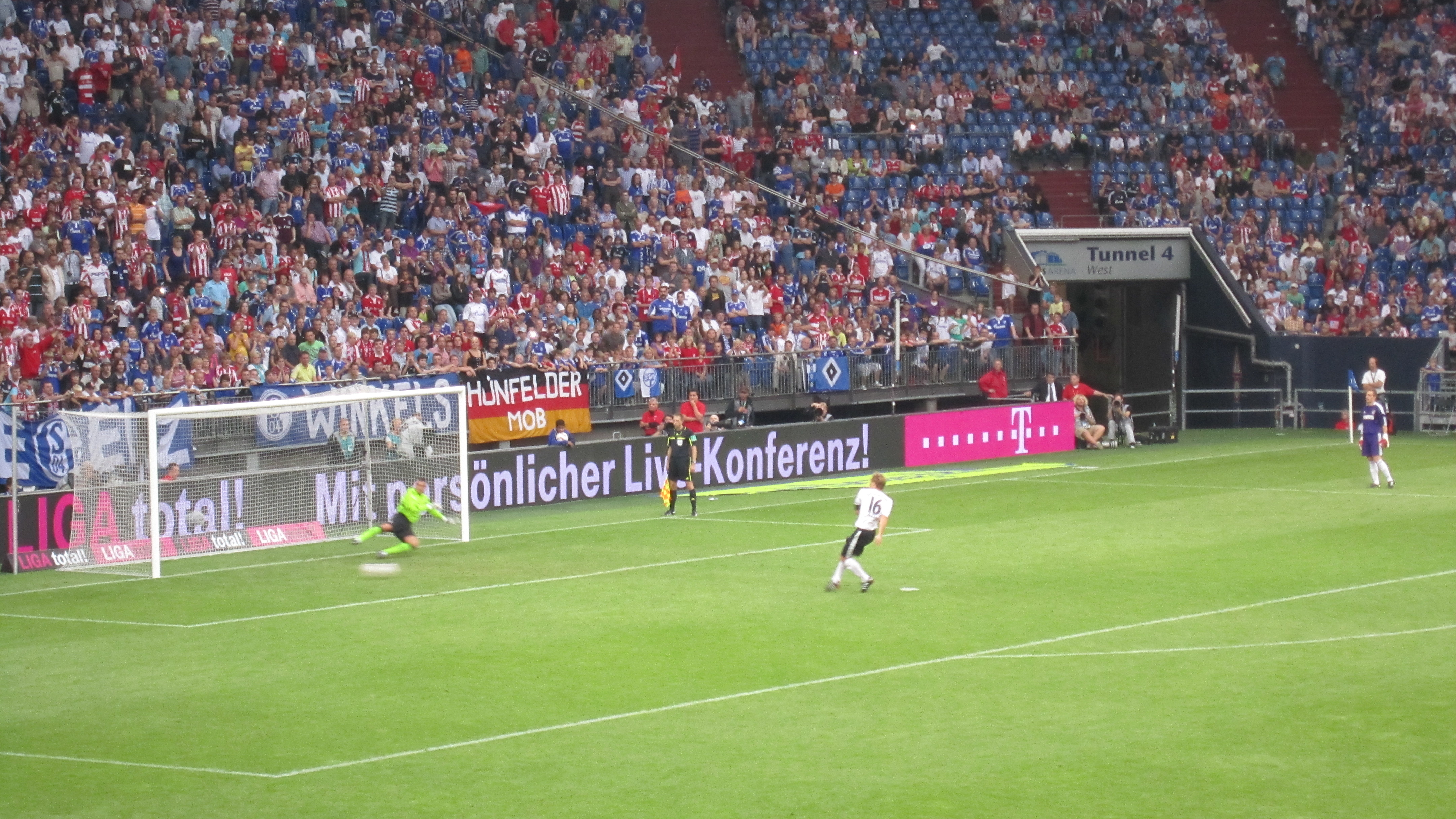 Andreas Ottl shoots a penalty during the LIGA Total! Cup 2010.